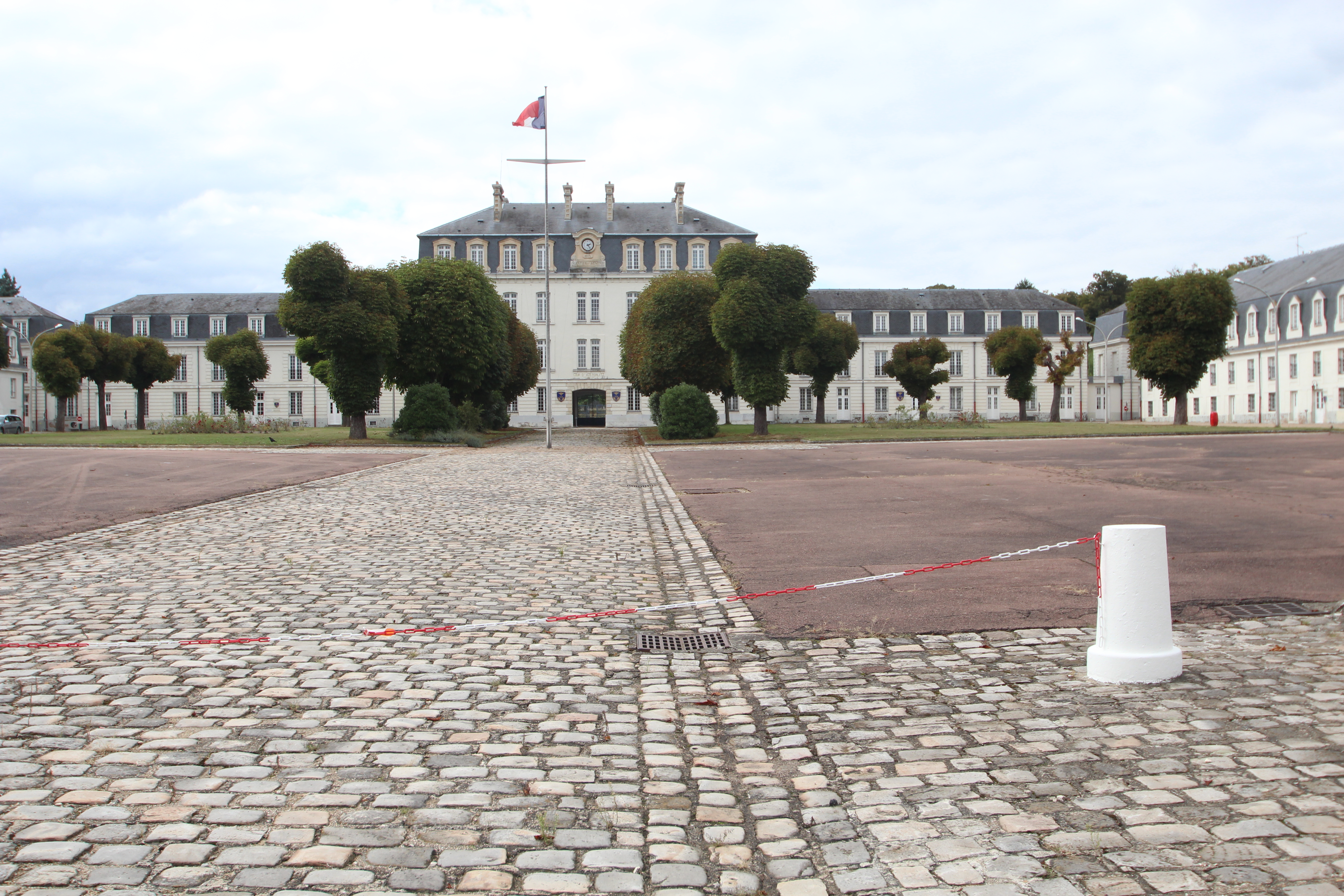 Headquarters Estienne in Rambouillet, France